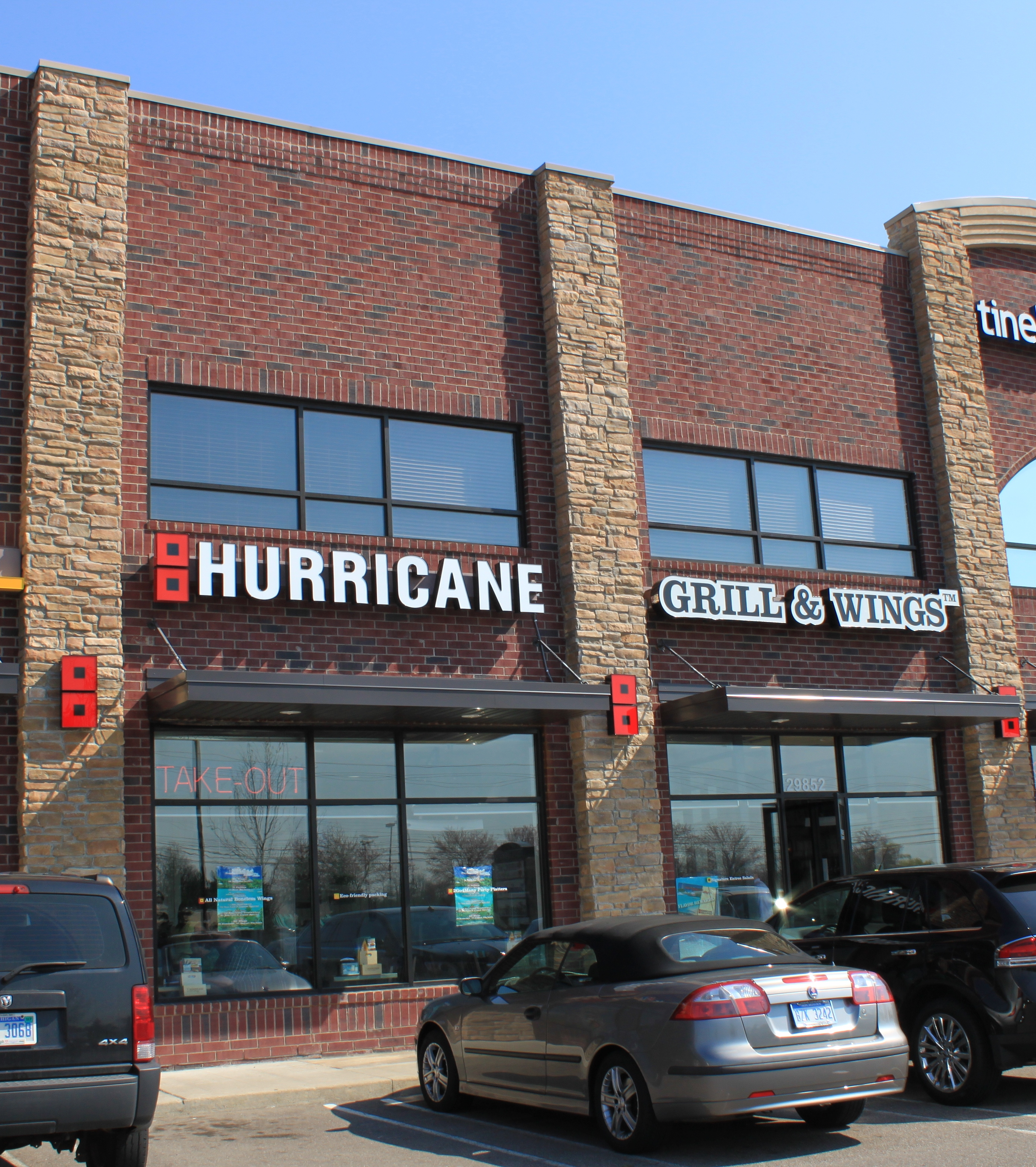 Hurricane Grill & Wings restaurant, 29852 Northwestern Highway, Southfield, Michigan.